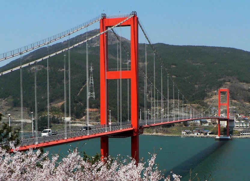 The Namhae Bridge connects Hadong Noryang and Namhae Noryang, South Korea